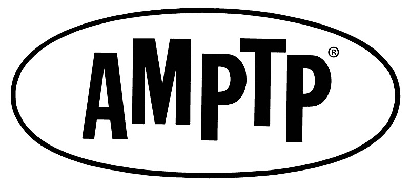 amptp logo